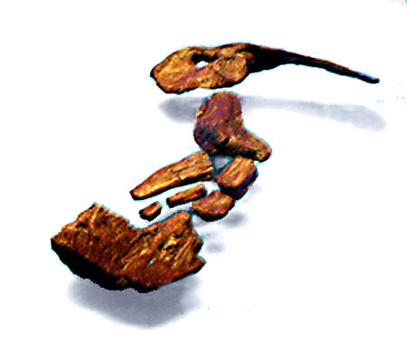 Limb of Tiktaalik (cast of the fossilised limb of a Tiktaalik, looking from fin towards shoulder), photographed at Science Museum, London, 2006